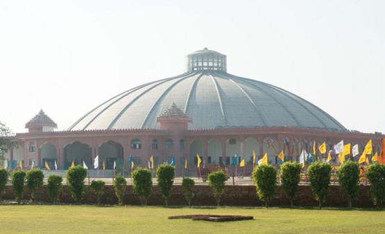 Bhakti Bhawan